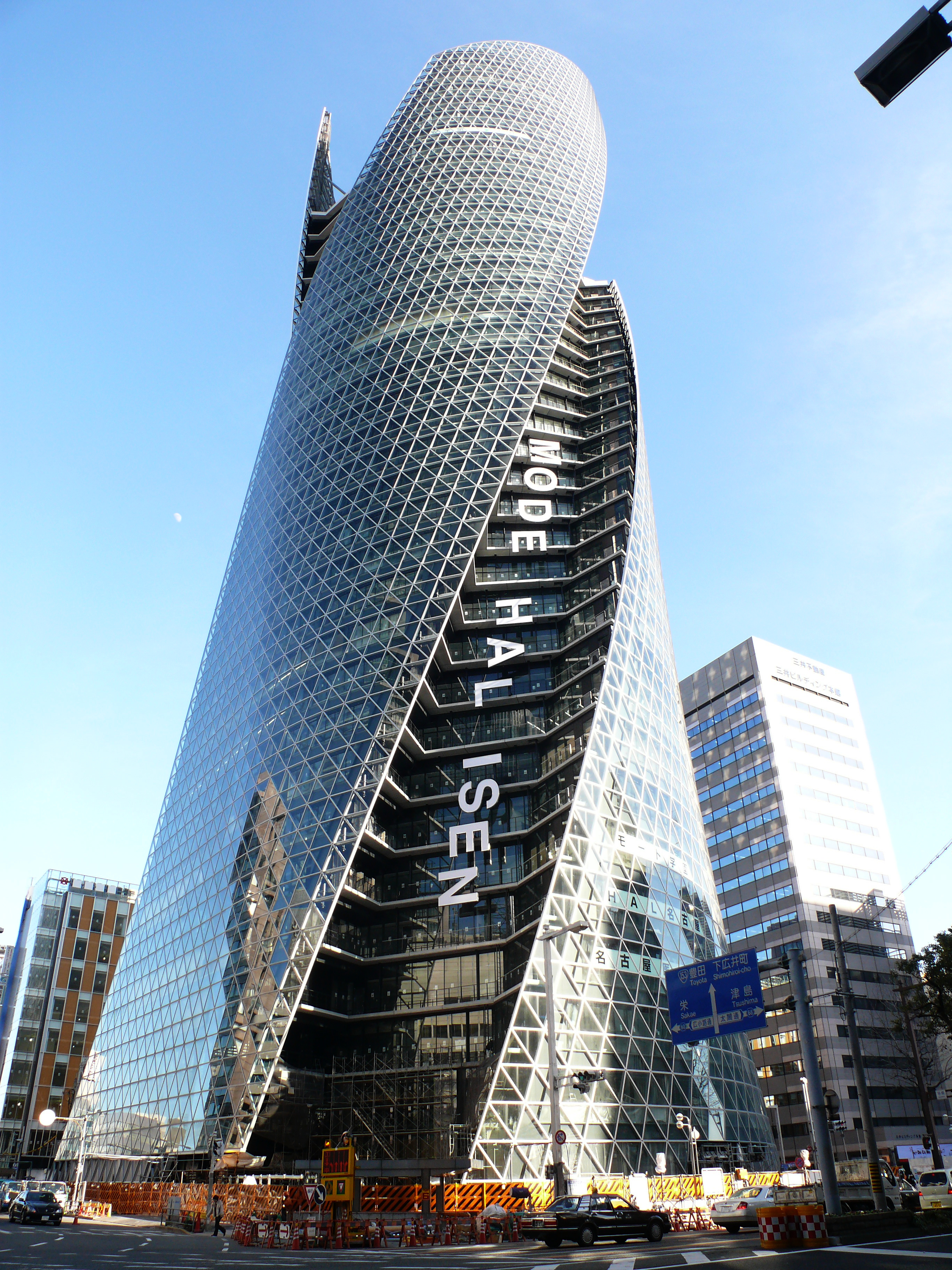 Nagoya Mode Academy Spiral Towers.